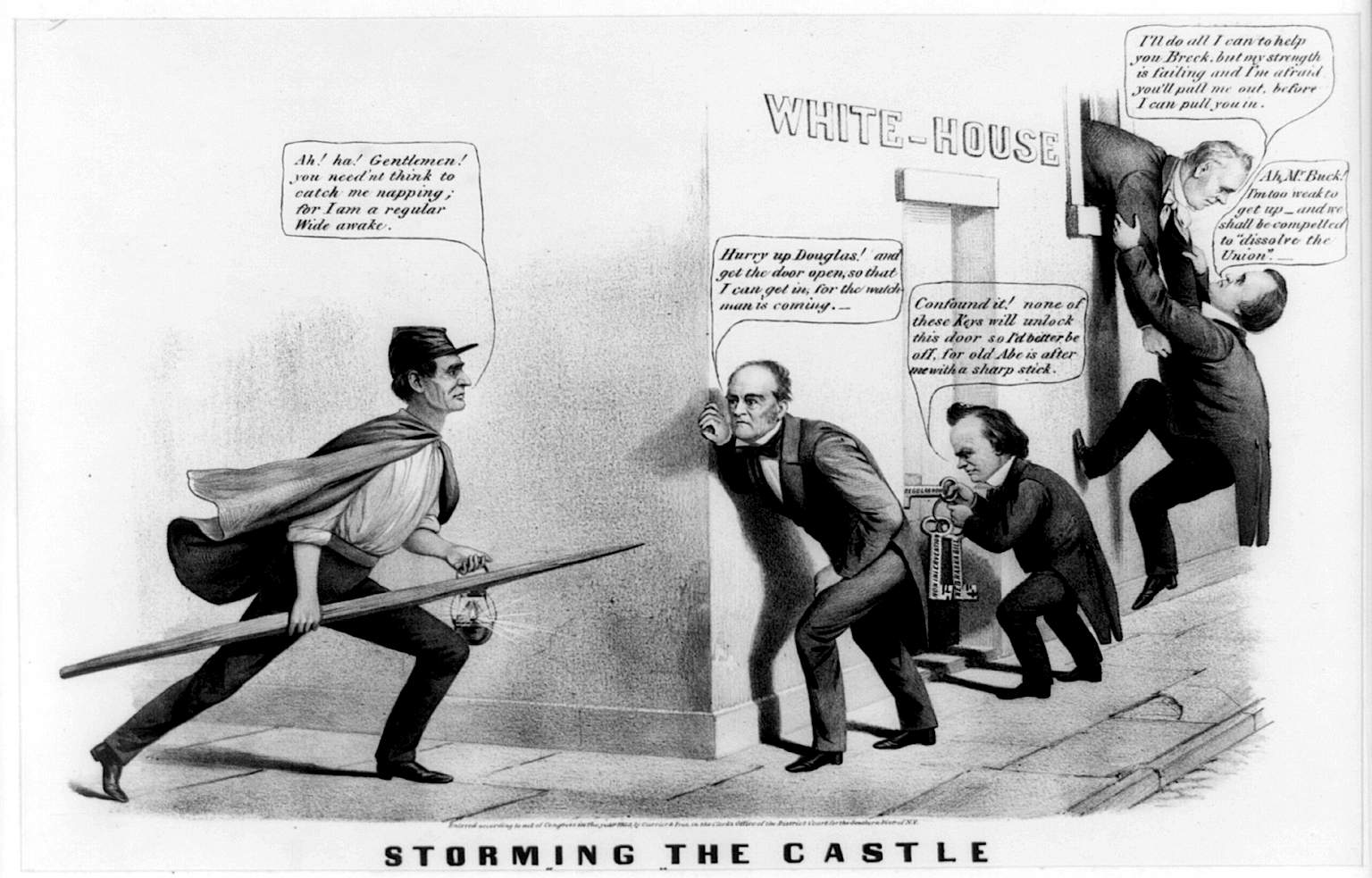 During the 1860 election campaign the "Wide Awakes," a marching club composed of young Republican men, appeared in cities throughout the North. (See no. 1860-14.) They often wore uniforms consisting of visored caps and short capes, and carried lanterns. Here Republican presidential candidate Abraham Lincoln (left) is dressed as a "Wide-Awake," and carries a lantern and a spear-like wooden rail. He rounds the corner of the White House foiling the attempts of three other candidates to enter surreptitiously. At far right incumbent James Buchanan tries to haul John C. Breckinridge in through the window. Buchanan complains, "I'll do what I can to help you Breck, but my strength is failing and I'm afraid you'll pull me out before I can pull you in." Breckinridge despairs, ". . . I'm too weak to get up--and we shall be compelled to dissolve the Union.'" His words reflect his and Buchanan's supposed alliance with secessionist interests of the South. In the center Democrat Stephen A. Douglas tries to unlock the White House door, as Constitutional Union party candidate John Bell frets, "Hurry up Douglas! and get the door open, so that I can get in, for the watchman [i.e., Lincoln] is coming." Douglas complains that none of the three keys he holds (labeled "Regular Nomination," "Non Intervention," and "Nebraska Bill") will open the door, ". . . so I'd better be off, for old Abe is after me with a sharp stick."